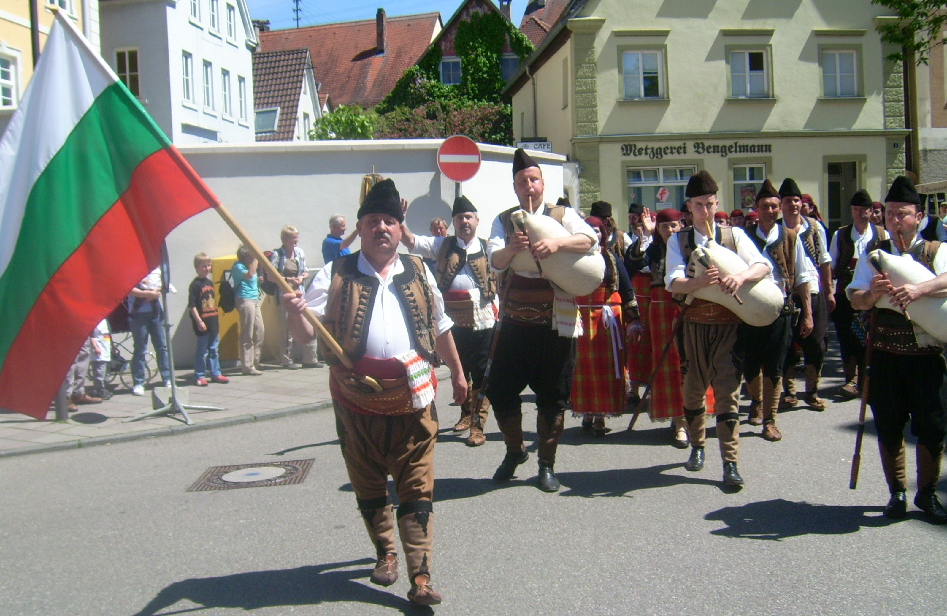 Bulgarian Gaida Players